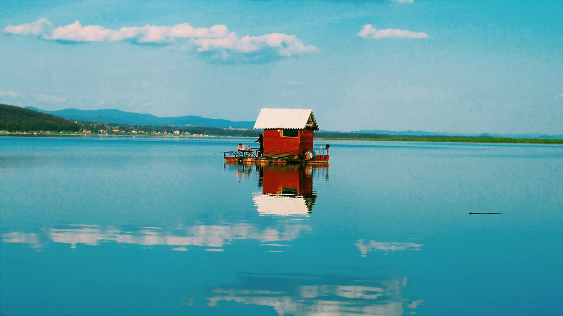 Modrac Lake consists a perceive number of huts that holds fishermen.